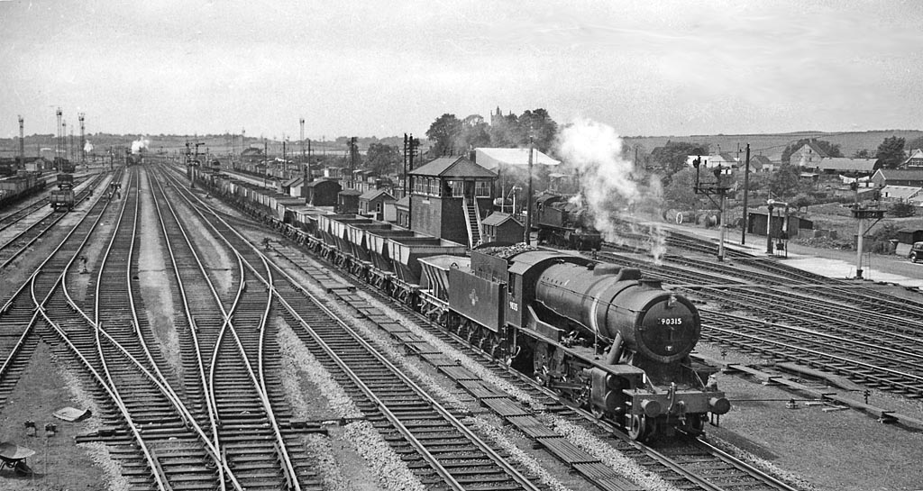 Severn Tunnel Junction Yards, with Up iron ore empties. View westward, towards Newport, Cardiff etc.; ex-Great Western South Wales main line. The photograph was taken from the bridge on the road to Rogiet Moor. The train is on the Up Slow line and passing Severn Tunnel Junction Middle Box. The locomotive is ex-War Department 2-8-0 No. 90315 - in unusually clean condition. The Yards were then in full use - the Down Yard being off to the right, the Up Yard beyond the signalbox. The whole Yard, although not the running lines, ceased to function from October 1987 and nowadays the M4 runs beside the site after bridging the Second Severn Crossing.